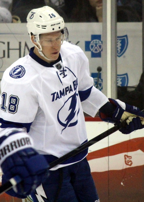 Tampa Bay Lightning forward Ondrej Palat during a game against the Pittsburgh Penguins, March 22, 2014, at Consol Energy Center in Pittsburgh, PA.